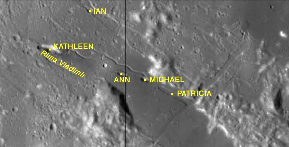 Sinous rille, informally known as "Rima Mozart" (a map) on the Moon, to the south of Palus Putredinis. Rima Bradley is seen in the right. (Image by LRO).